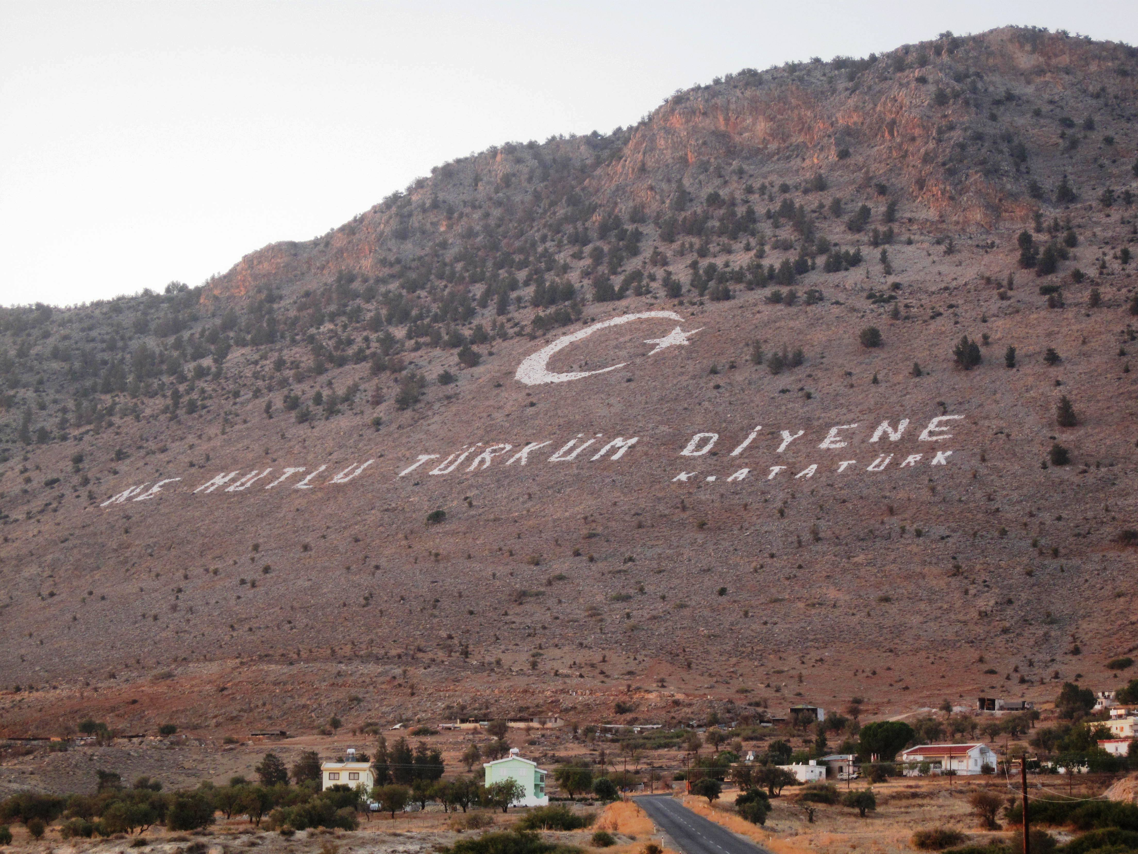 The text is this: "Ne mutlu türküm Diyene. K. Atatürk" (= Happy is a man who says I am a Turk. K. Atatürk)